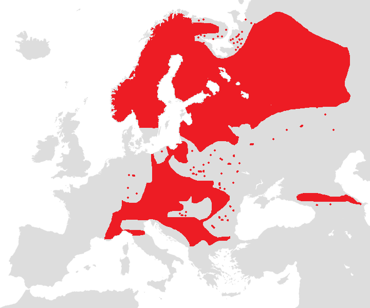 Distribution map of Alnus incana—gray alder in Europe.